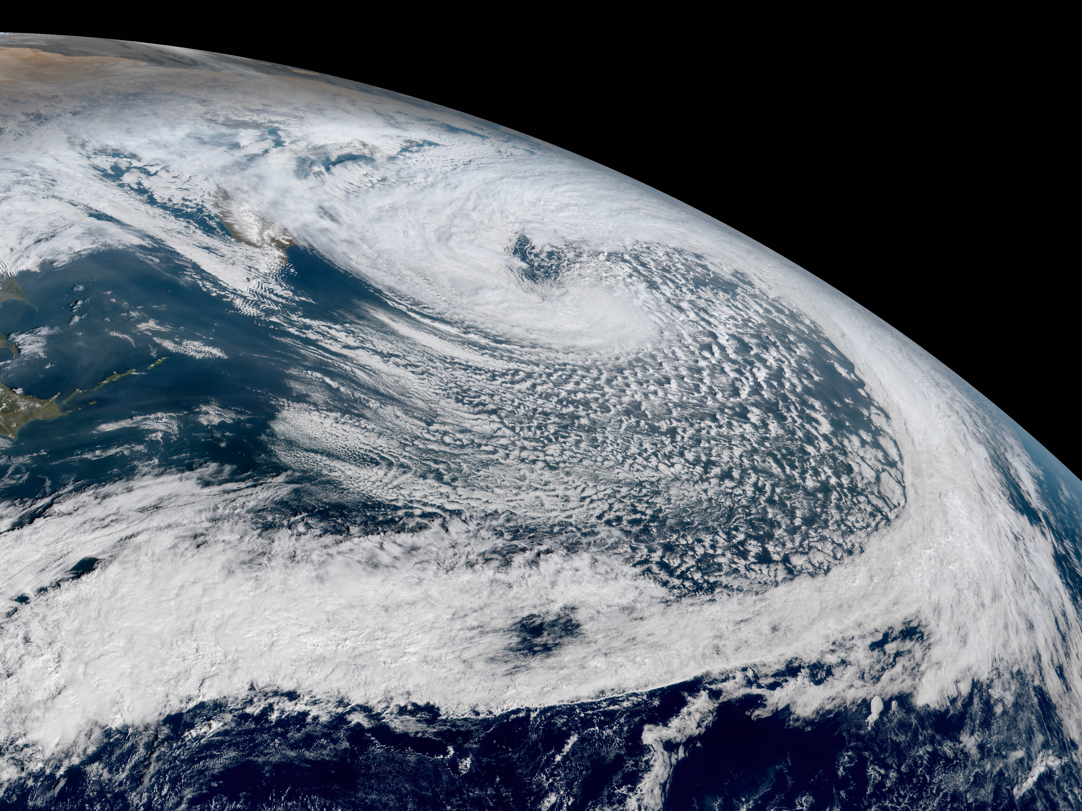 The Himawari-8 satellite captured a powerful typhoon-force extratropical cyclone east of the Kamchatka Peninsula late on October 24 (locally before noon on October 25), 2017. In terms of minimal pressure, it was the strongest extratropical cyclone of the Northern Hemisphere in 2017, which central pressure reached 934 hPa earlier. The energy from the remnants of Typhoon Lan triggered explosive cyglogenesis.